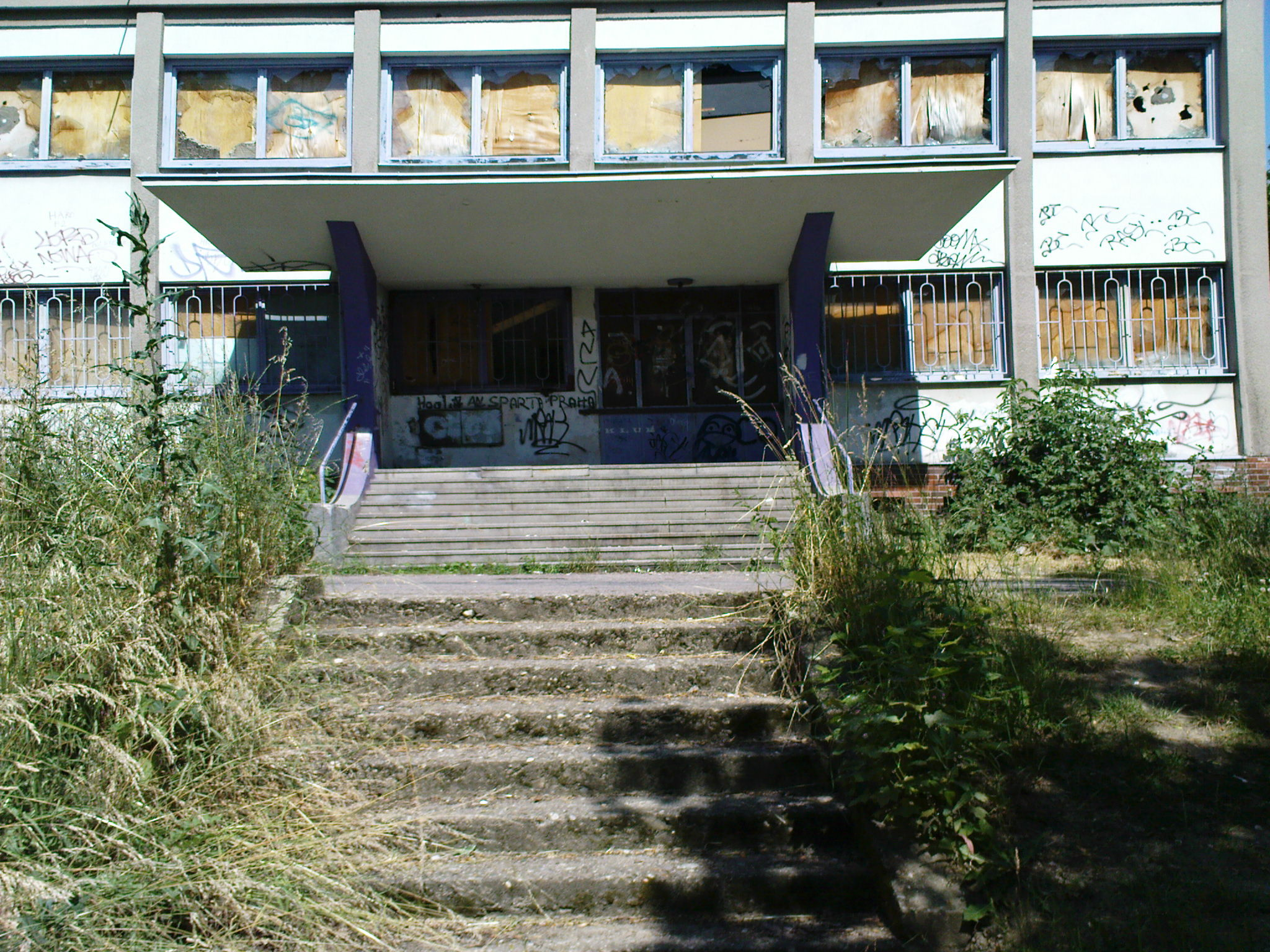 Closed down building ("block") H of the student dormitory "Na Větrníku" in Prague, falls into disrepairs for years.